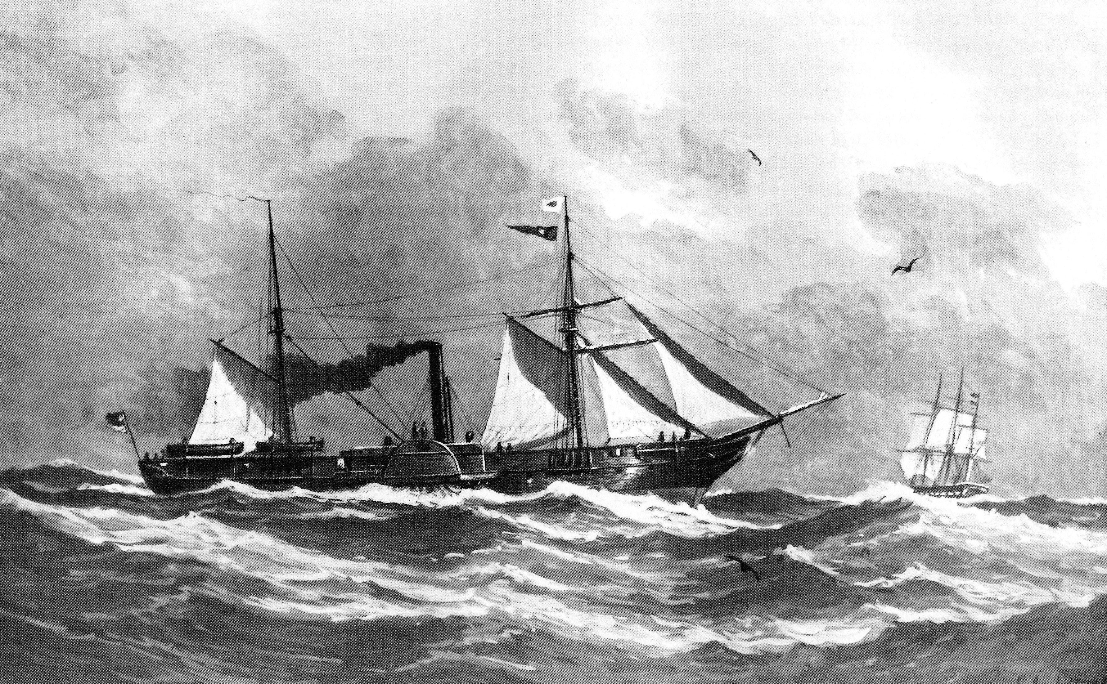 Side wheeler corvette FRANKFURT of the German Reichsflotte approximately 1850. Painting by naval artist Lüder Arenhold (1854-1915) round about 1905